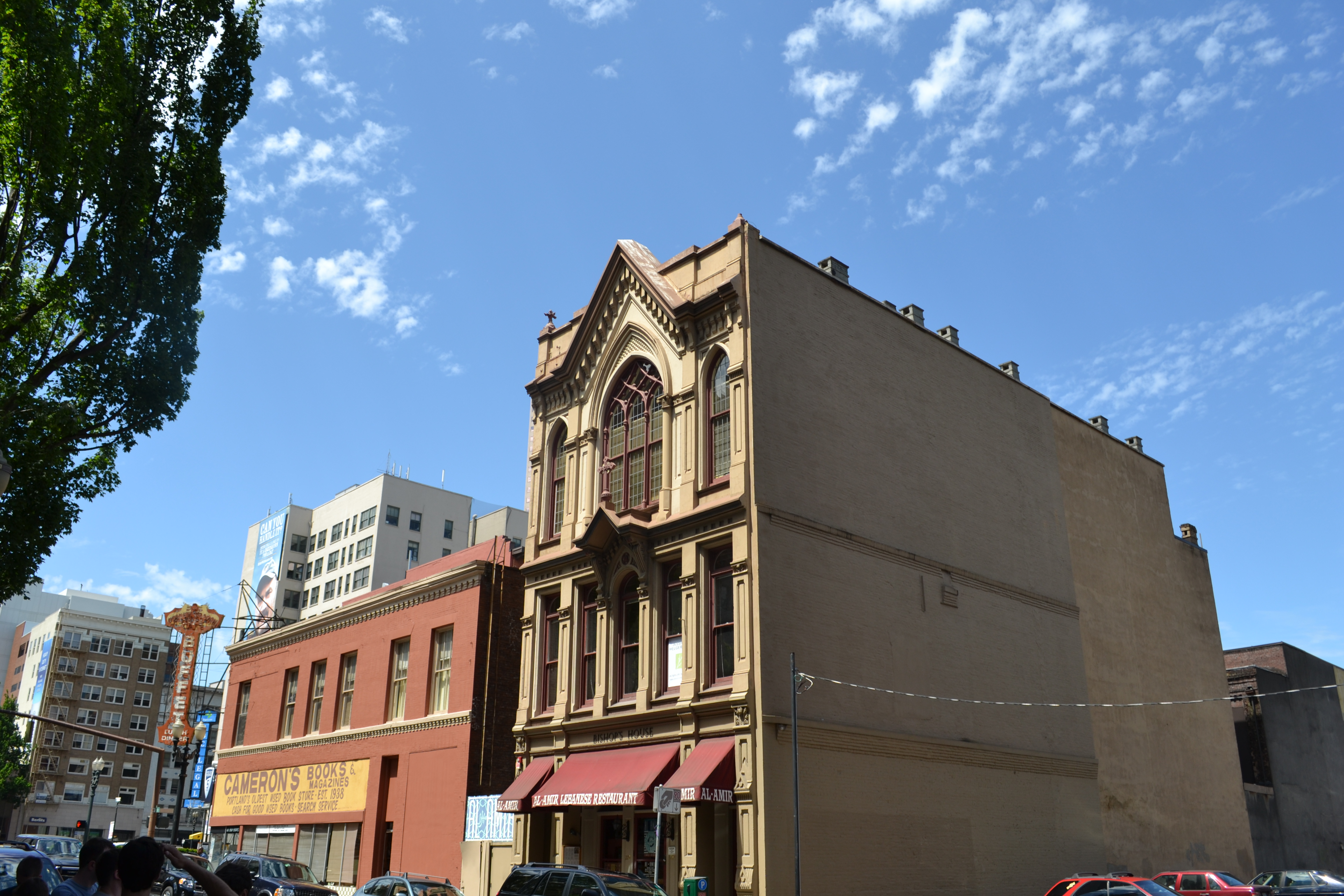 Bishop's House and Cameron's Books (Portland, Oregon)